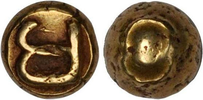 An example of Piloncitos with a Baybayin Ma (ᜋ) character.